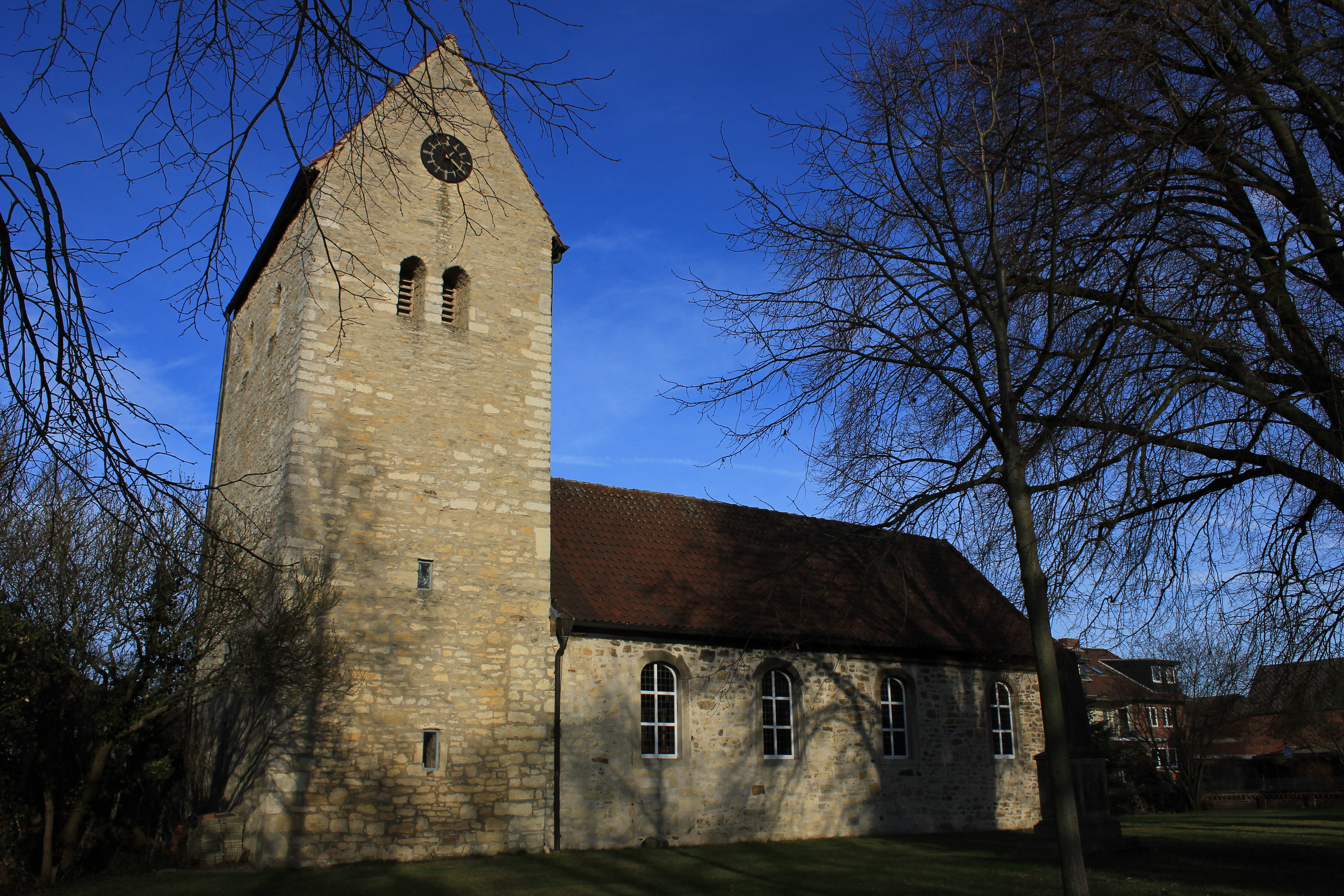 Kirche von Mörse (Wolfsburg)